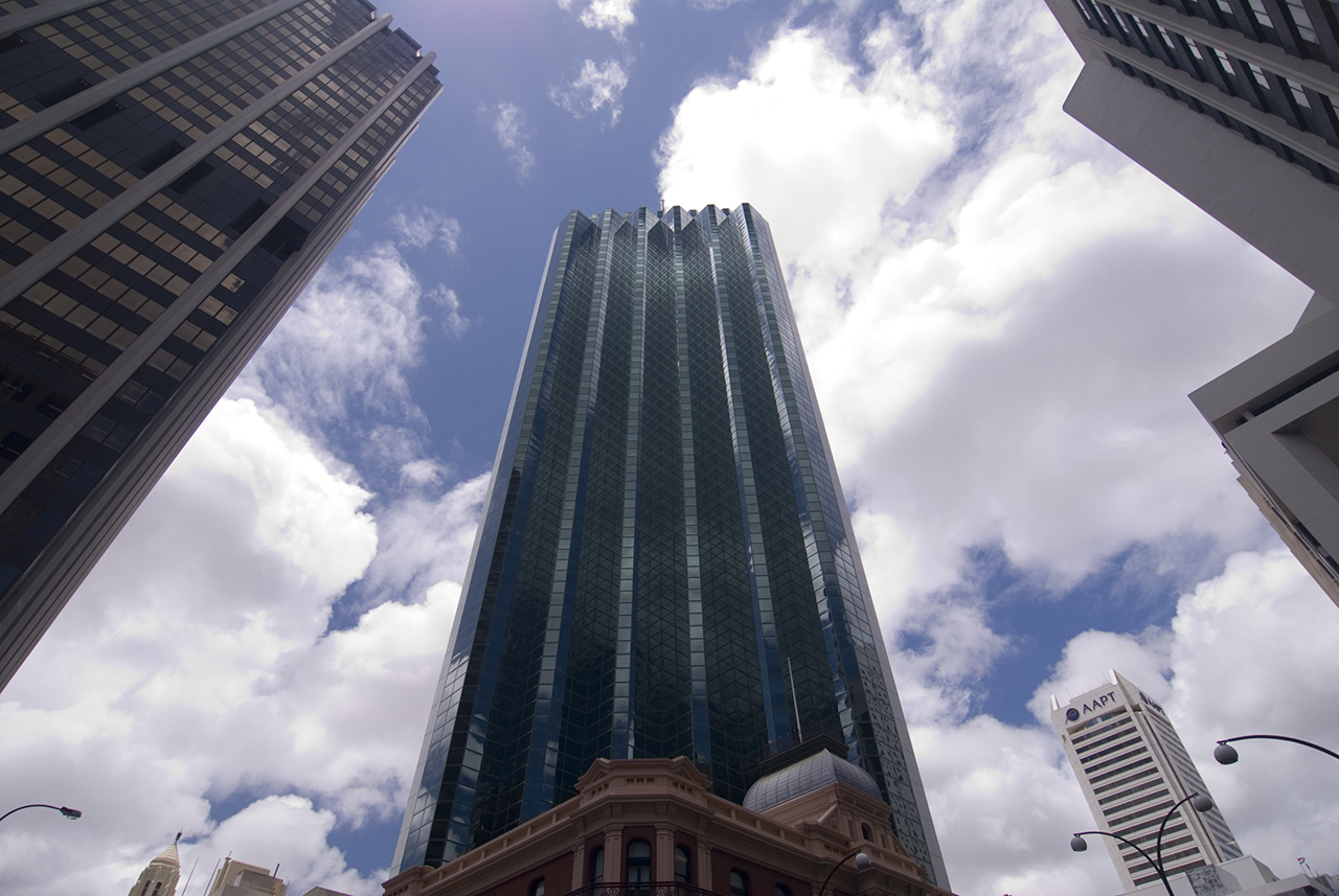 The south-western face of the BankWest Tower in Perth, Western Australia, taken from the intersection of St Georges Terrace and William Street.